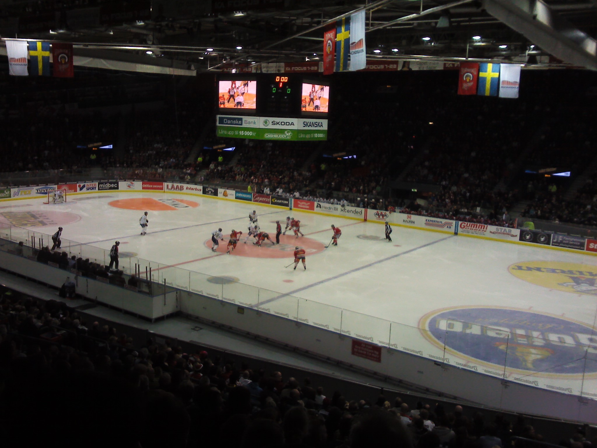 The Frölunda HC-HV 71 (1-2) Elitserien ice hockey game in Scandinavium in Gothenburg, Sweden. 18 February 2012